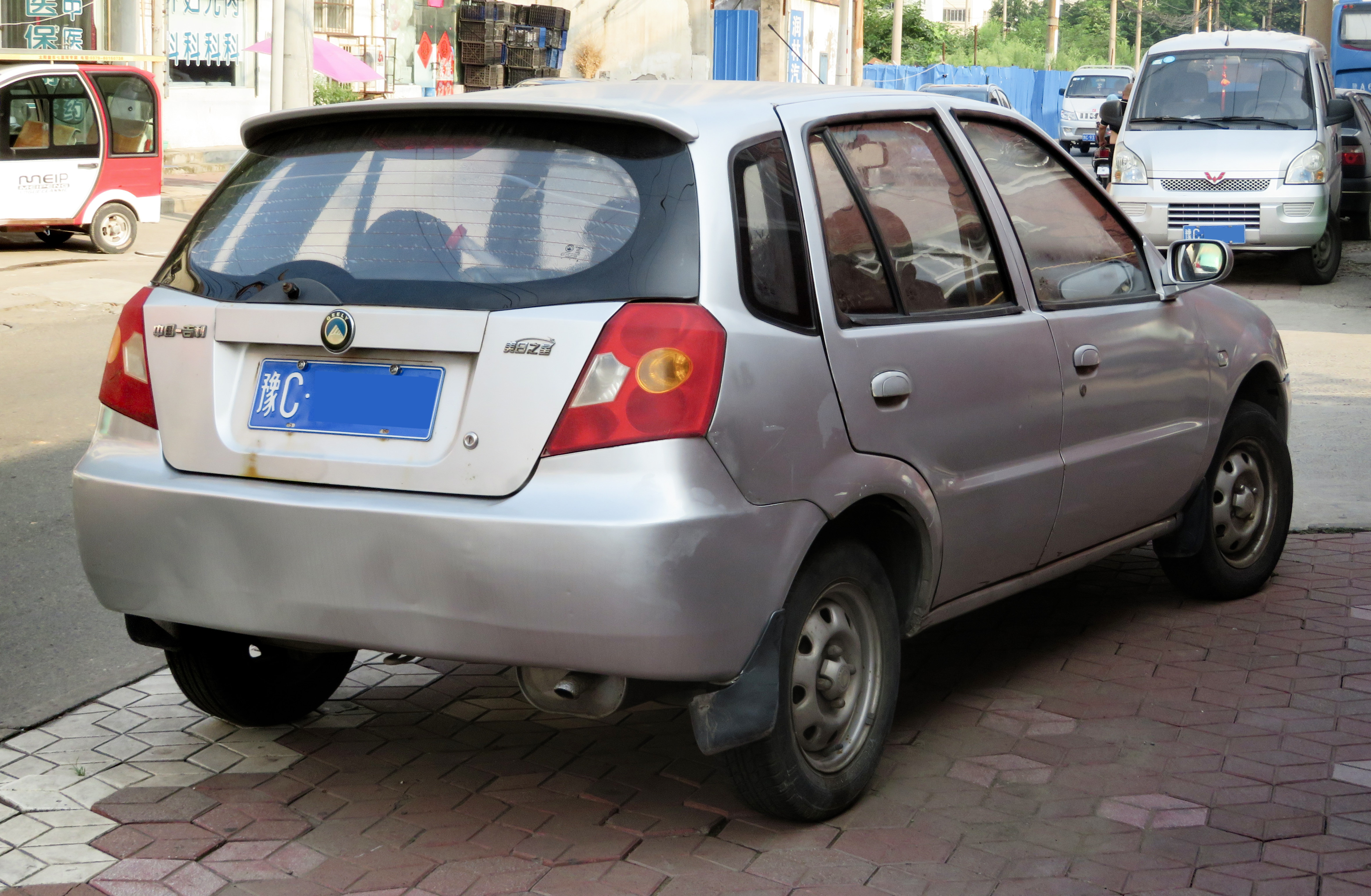 A 2004 Geely Merrie (Meiri-Zhixing) photographed in Xigong District, Luoyang, Henan province, China